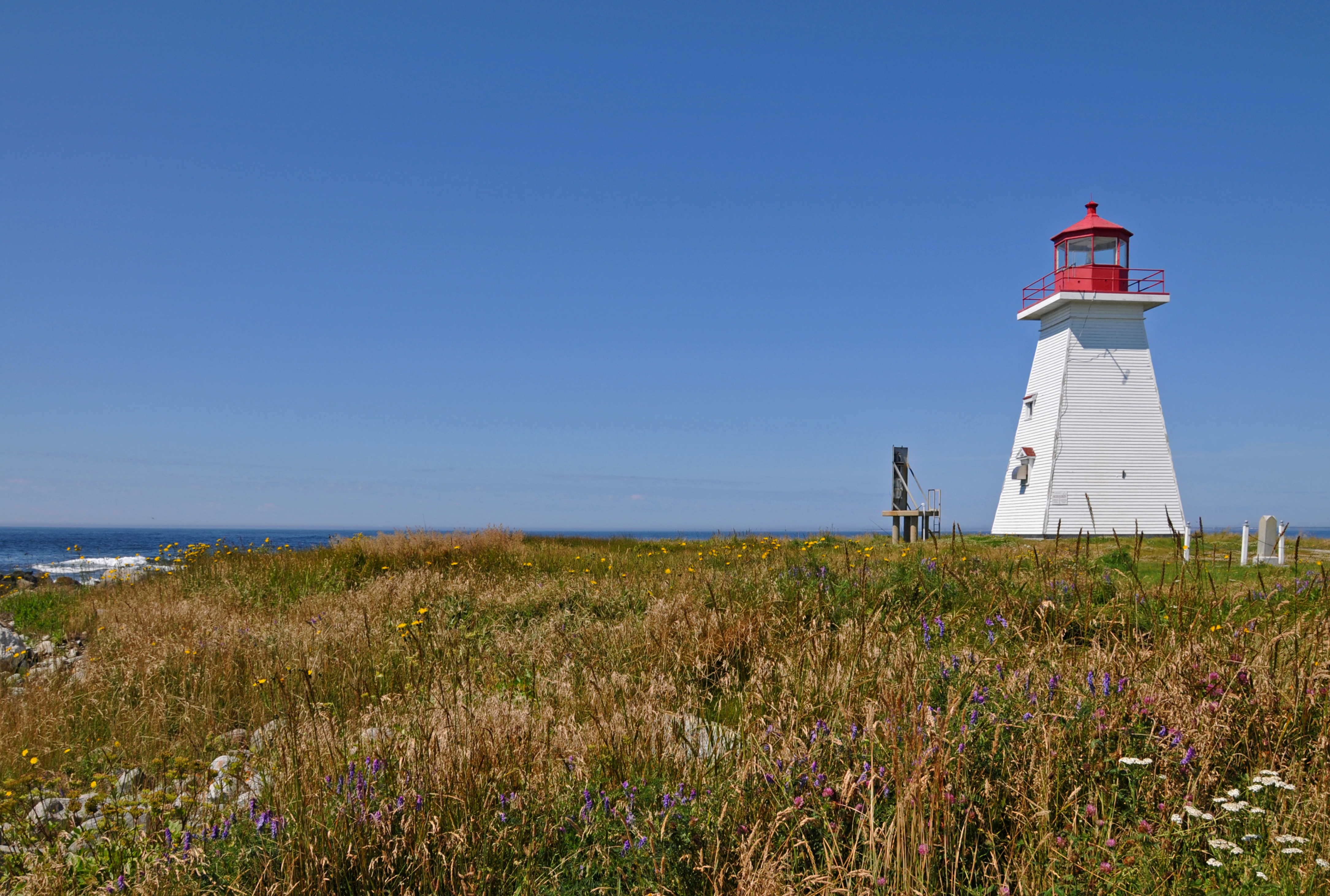 Baccaro lighthouse stands as a beacon for the ships in the area. Baccaro, Nova Scotia, Canada Baccaro is the oldest place name in Nova Scotia. It comes from the Basque word, Baccolaos, cod-fish. Baccaro point is the most southerly point of mainland Nova Scotia. (Cape Sable off Cape Sable Island is the furthest south.) In 1852 the materials for the first lighthouse were hauled along the beach - there being no road. Today the tall, square building stands fast on its bed of solid rock. Body of Water: Barrington Bay County: Shelburne Region: South Shore Scenic Drive: Lighthouse Route Tower Height: 045ft (13.7m) Height Above Water: 052ft (15.85m) Characteristic: Flashing White (1992) Still standing:True Still operating: True